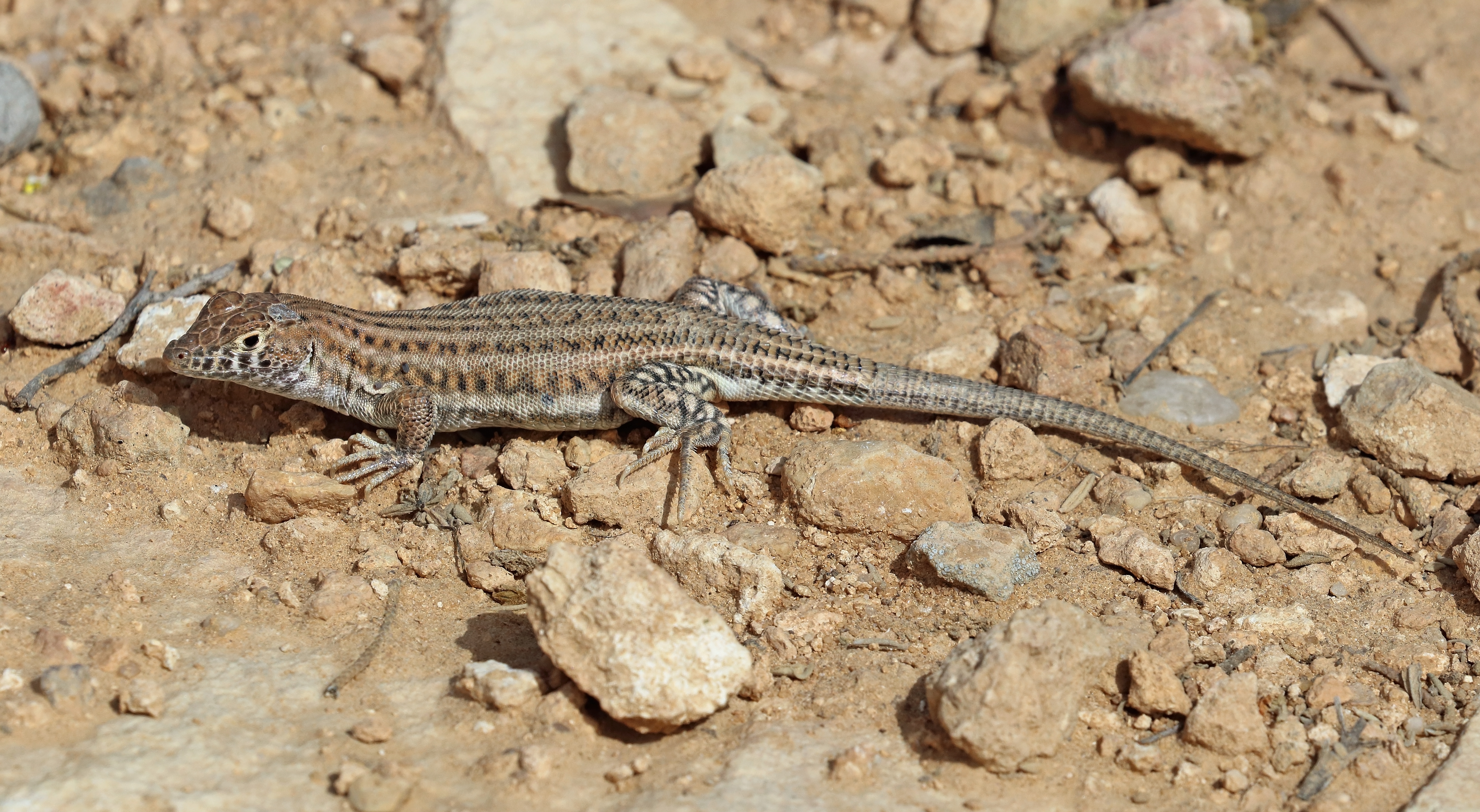 Bosc's fringe-toed lizard (Acanthodactylus boskianus asper), Dana Biosphere Reserve, Jordan